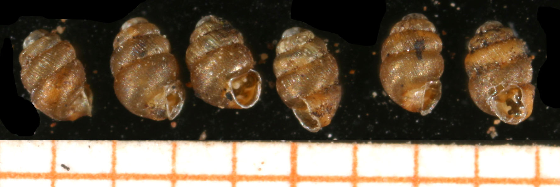 Photo of shells of Vertigo substriata. Scale is in mm. Locality: Germany: Schleswig-Holstein, Lottsee. Date: 30-08-2001.